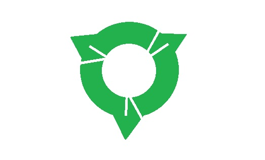 Flag of Owariasahi Aichi